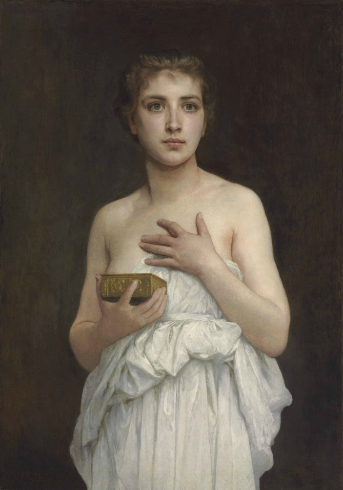 Pandore 1890